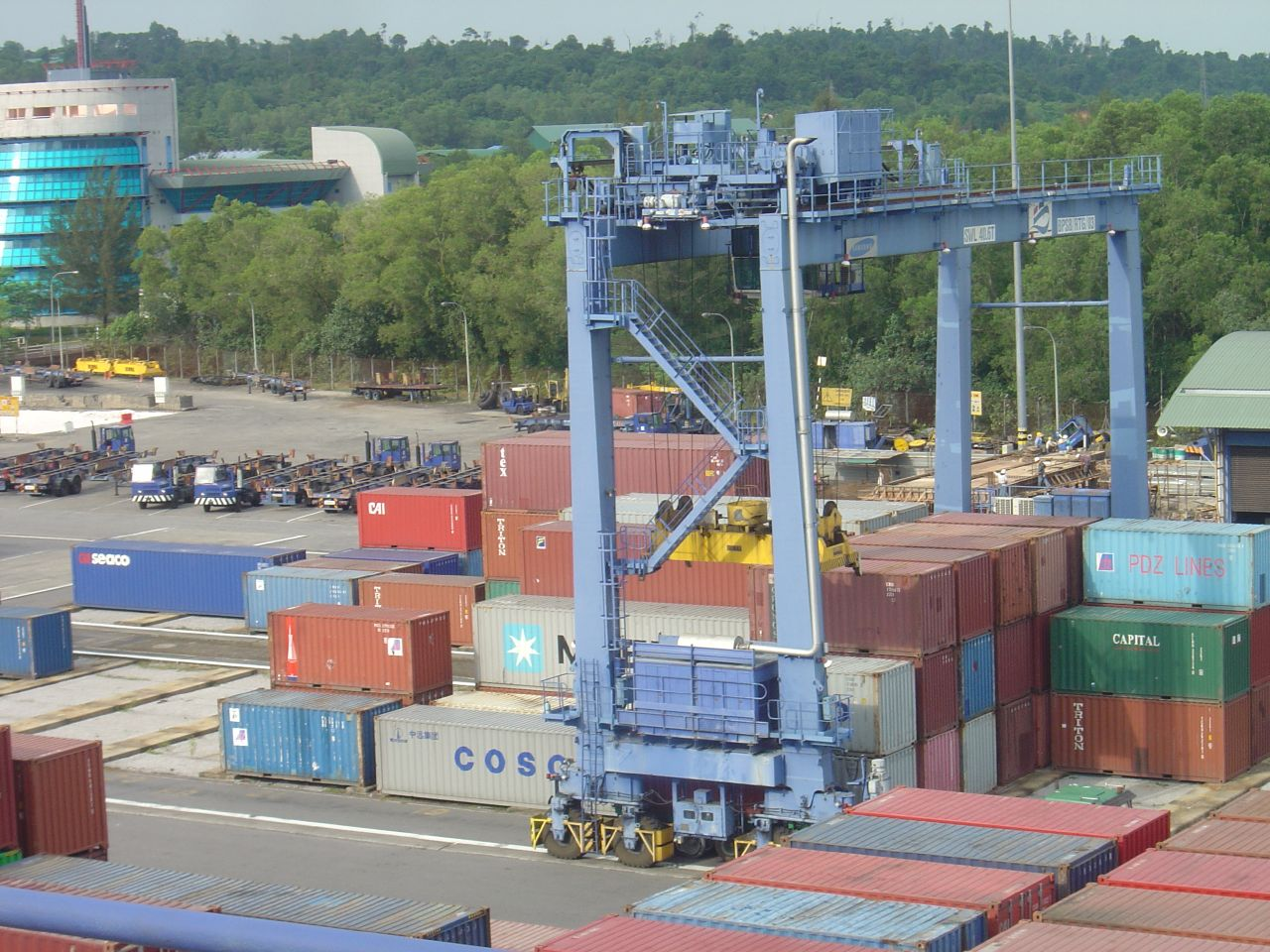 Rubber tyred gantry crane (RTG) at Bintulu International Container Terminal (BICT), Sarawak, Malaysia. Building in the background is Wisma Kontena.